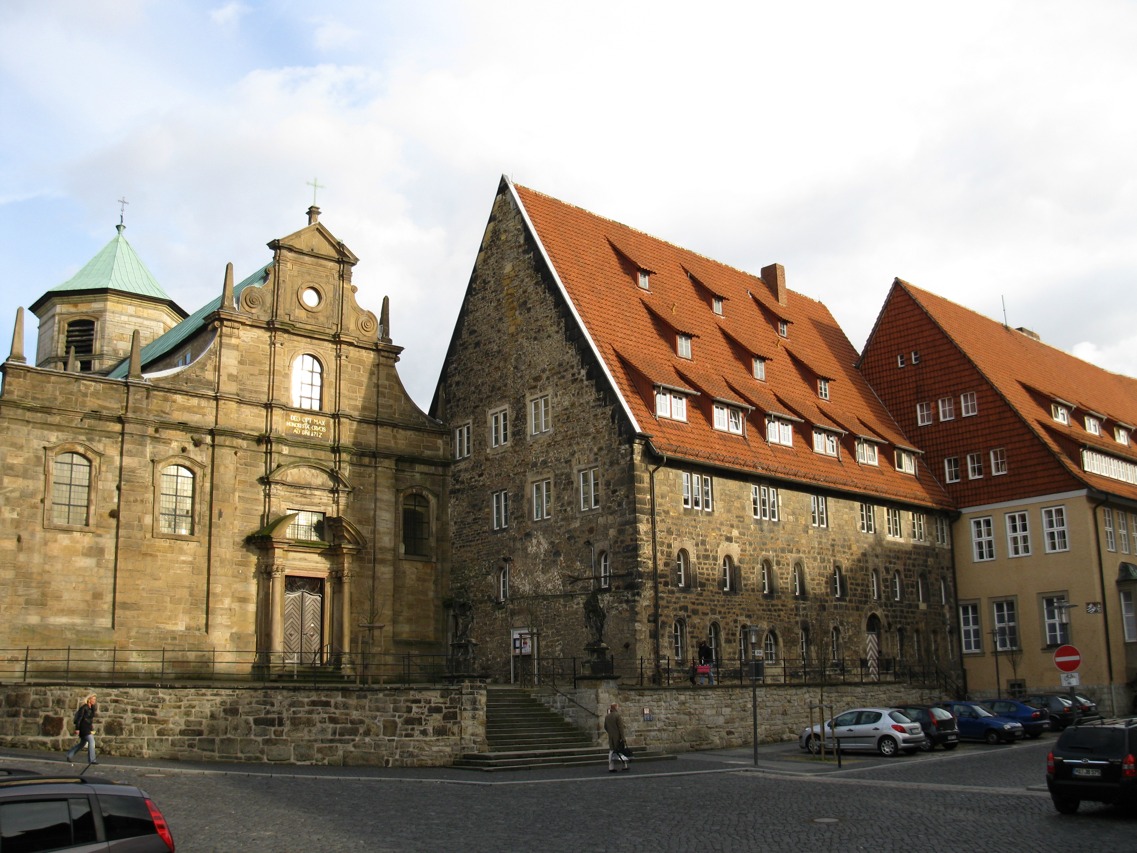 Church of the Holy Cross and house Choralei (12 century) in Hildesheim, Germany.